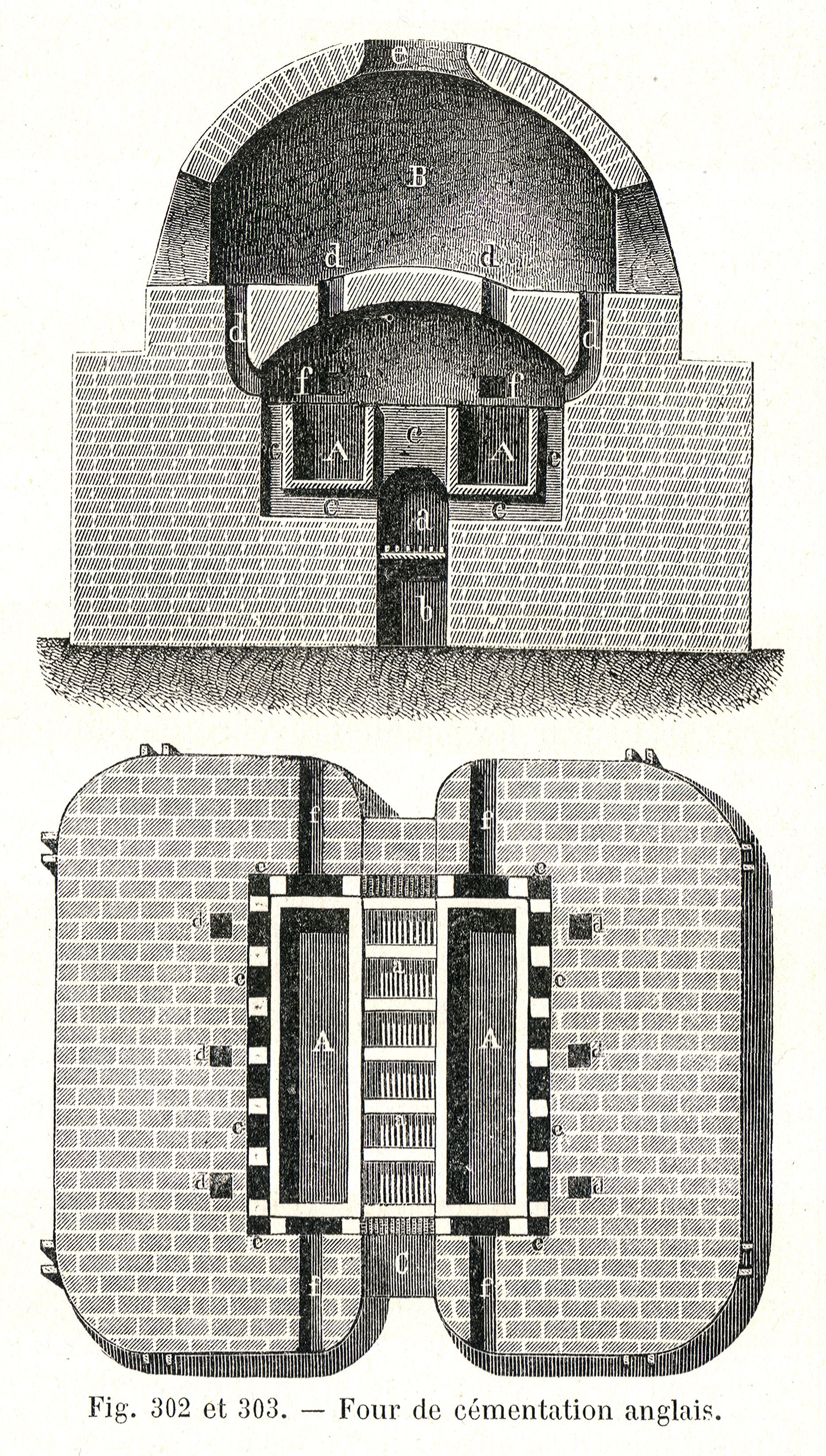 (caption) English Cementation Furnace Image scanned from : Manuel de la métallurgie du Fer [Manual of Ferrous Metallurgy], Volume 2, by Adolf Ledebur, French edition translated by Barbary de Langlade, reviewed and annoted by F. Valton, published by Librairie polytechnique Baudry et Cie, 1895, page 608.